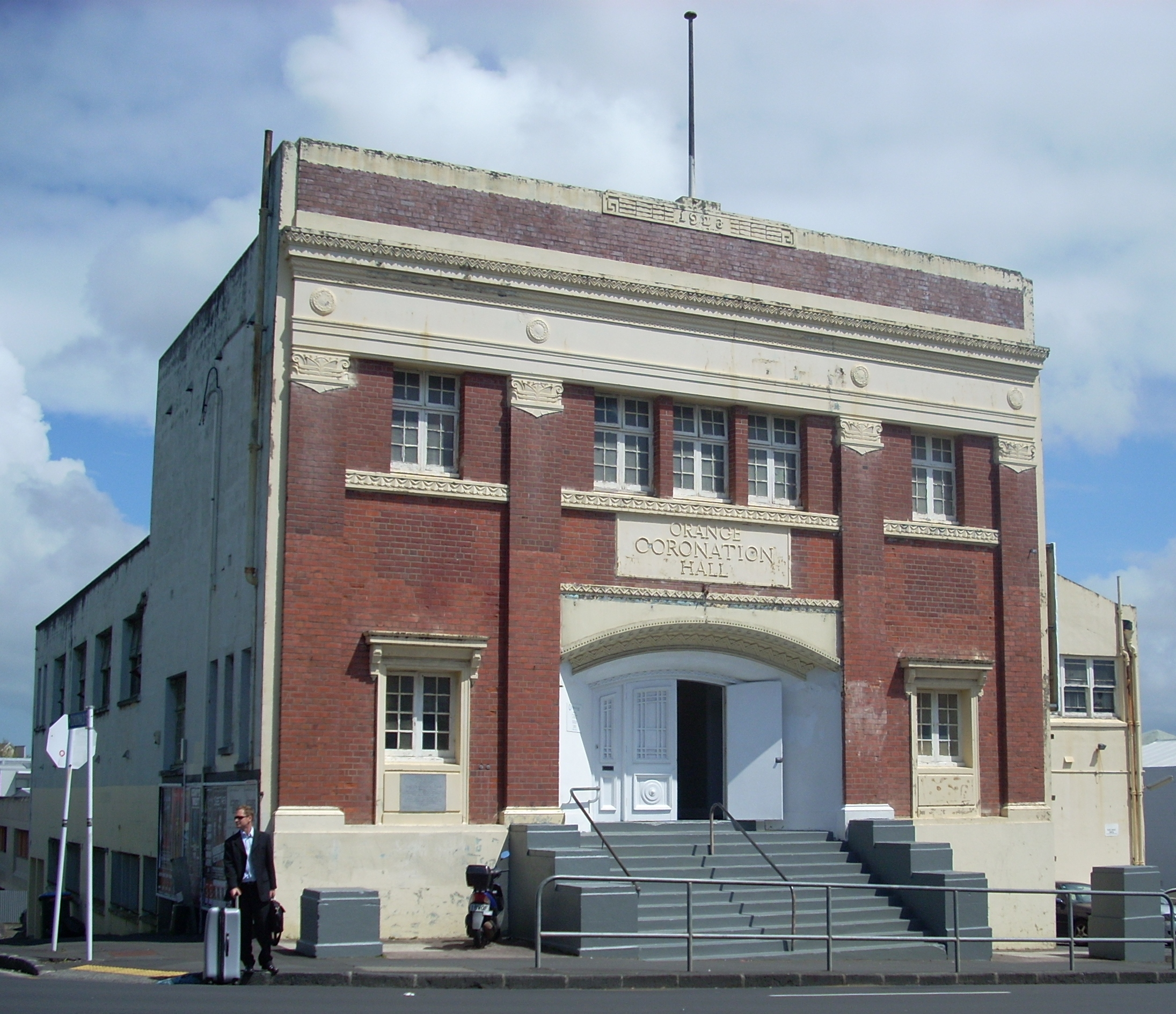 Former Orange Hall on Newton Road, Auckland, New Zealand. The Orange Coronation Hall. Reception hall in Auckland.